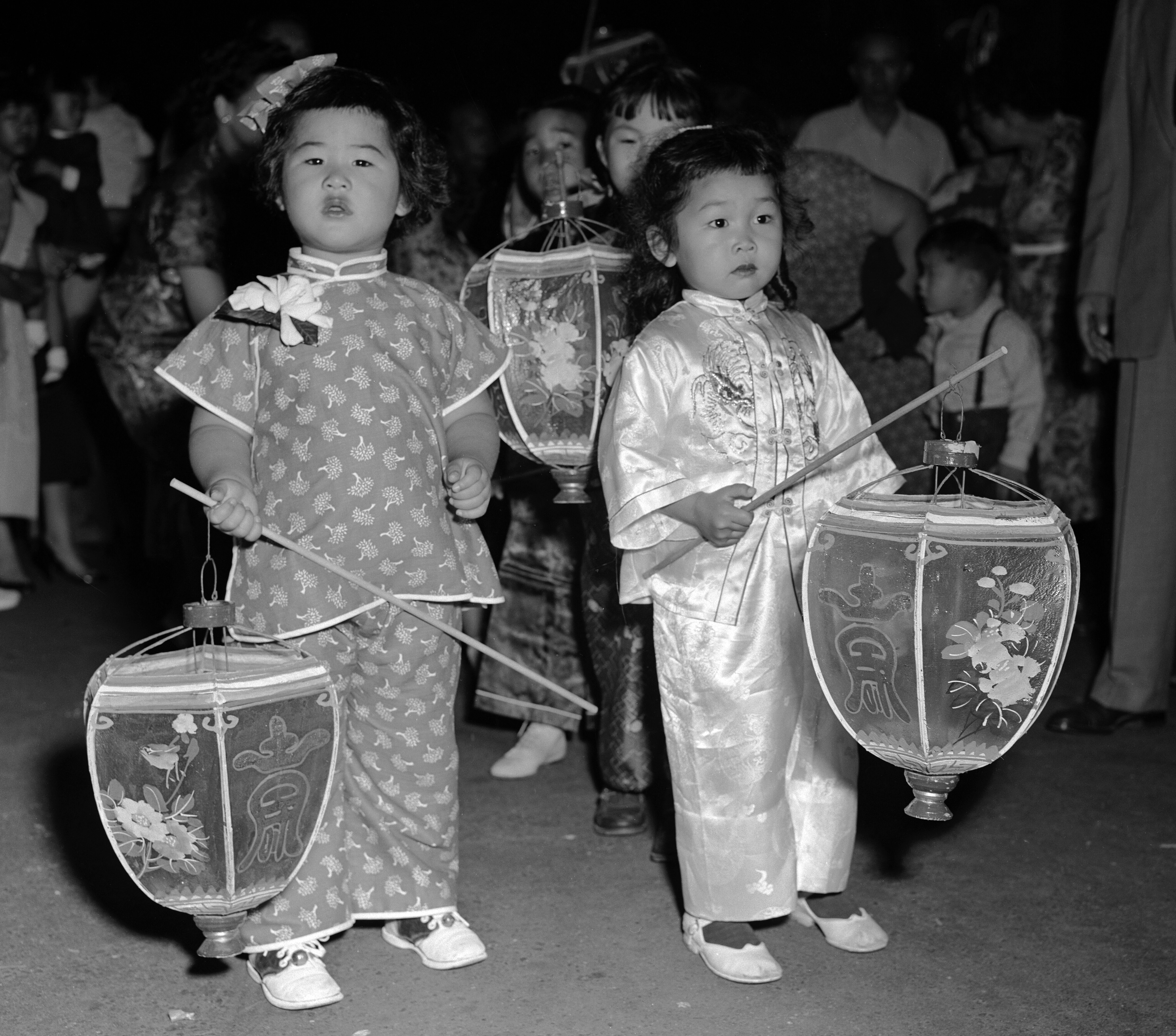 Title: Moon festival lantern parade in Chinatown, Los Angeles (Calif.) Publication:Los Angeles Daily News Publication date:1954 Notes:Chinese American children carry lanterns in a Moon Festival lantern parade in Chinatown, Los Angeles. Source:Los Angeles Times photographic archive, UCLA Library Note about non-renewal of copyright: [1]